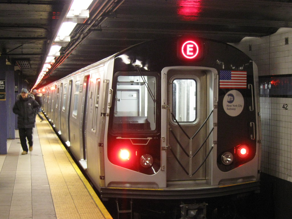 An R160A E train boards and alights customers at 42 Street-Port Authority Bus Terminal.